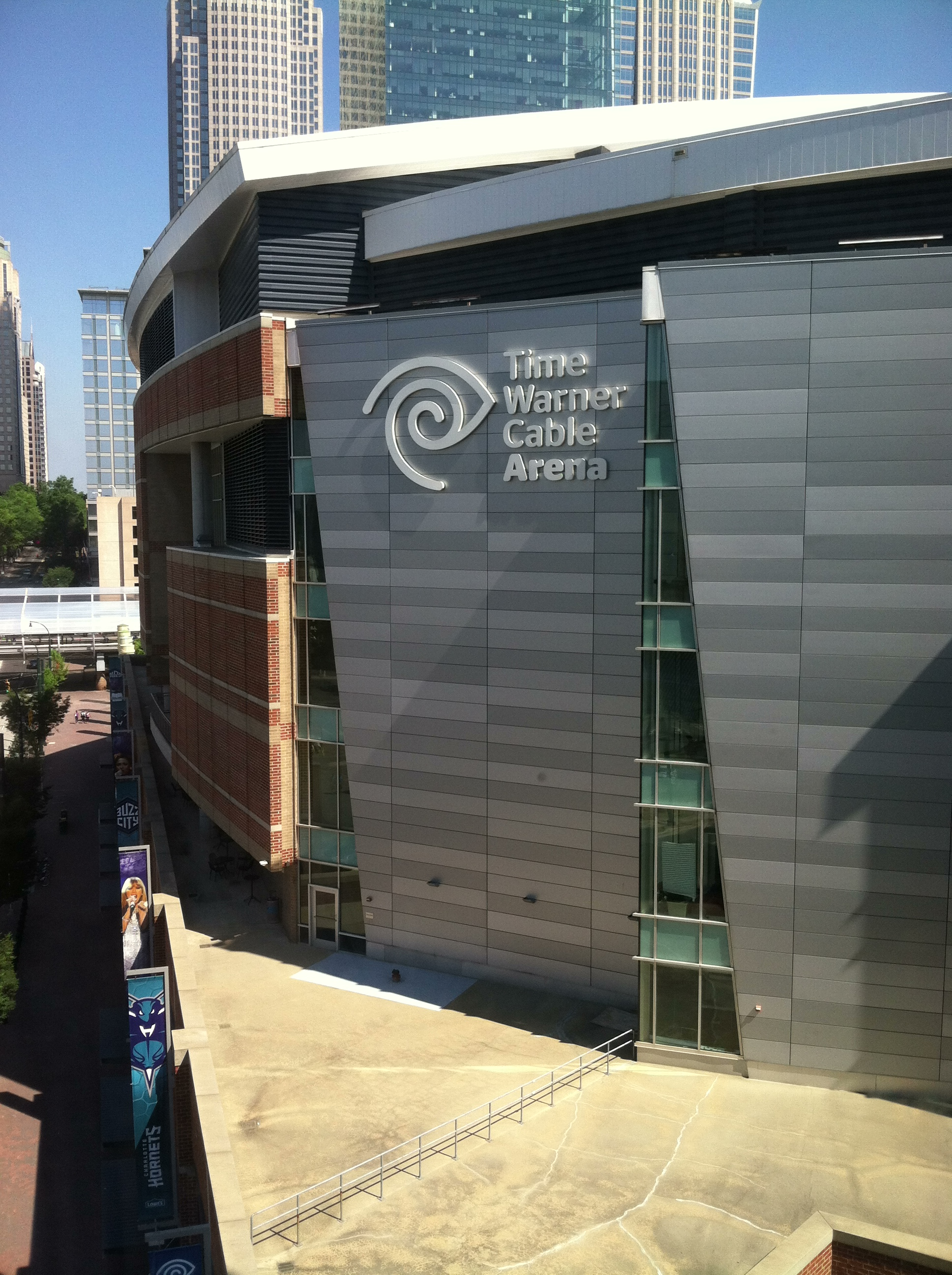 Outside of Time Warner Cable Arena in Charlotte, North Carolina, U.S. 2015